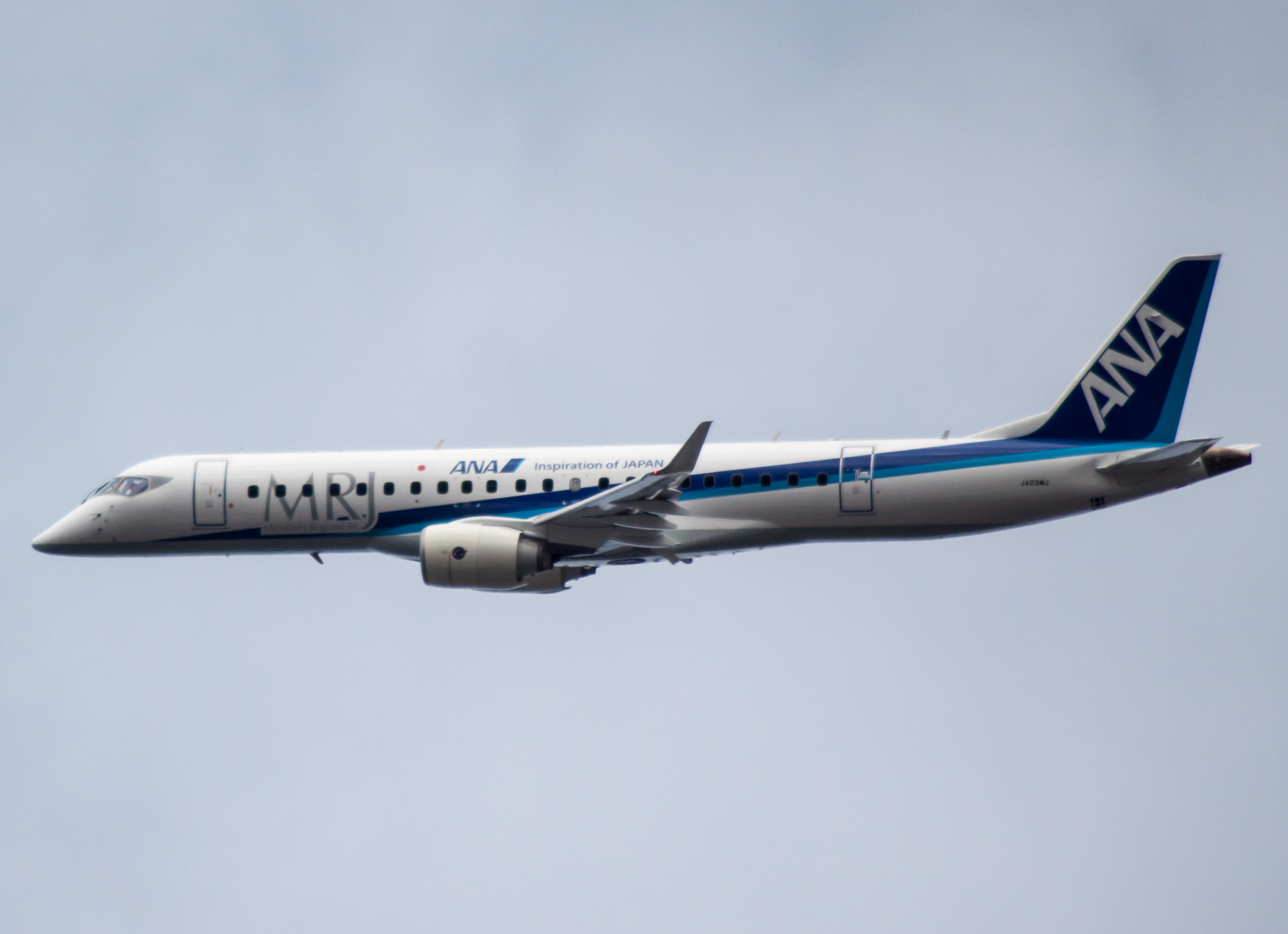 A Mitsubishi Regional Jet (registration JA23MJ) in ANA-colours preparing for a demonstration flight at Farnborough Airshow 2018.